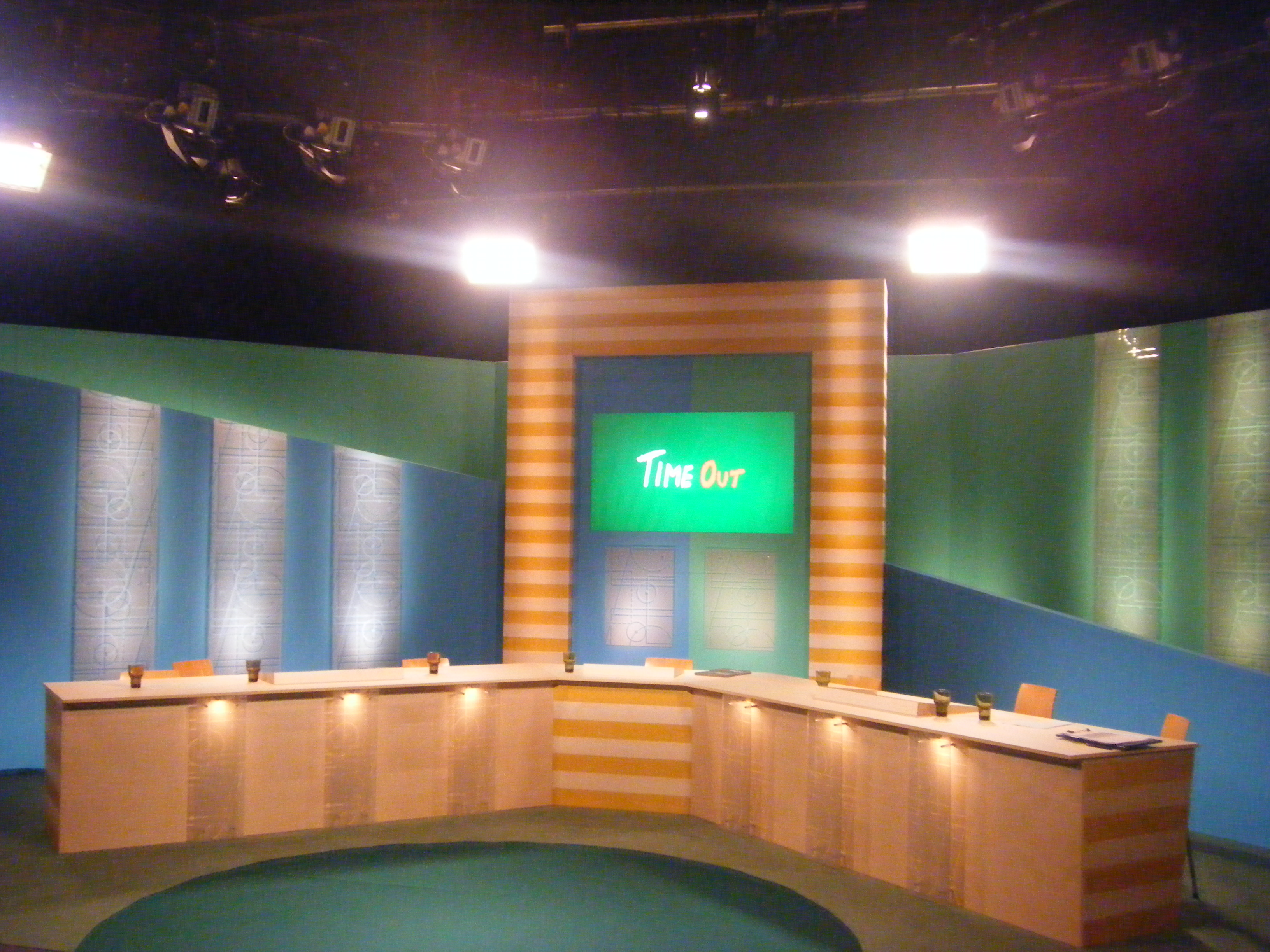 Swedish tv-program Time Out-studio